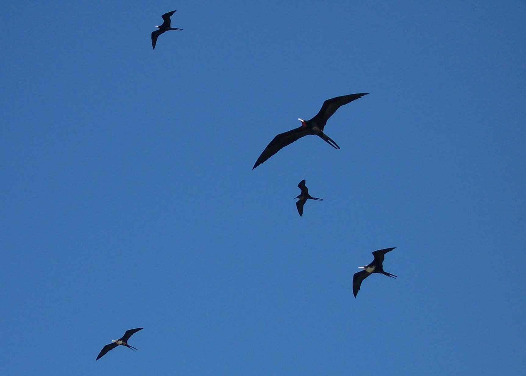 Frigatebirds on Europa island : Great Frigatebird (Fregata minor) - males with red throat- and Lesser Frigatebird (Fregata ariel) -with white chest